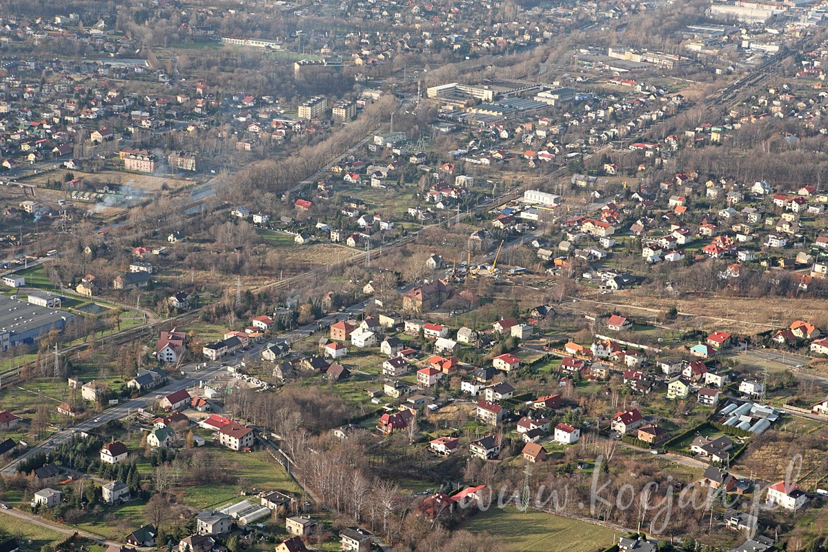 Aerial photography of Mikuszowice - district of Bielsko-Biała, Poland.